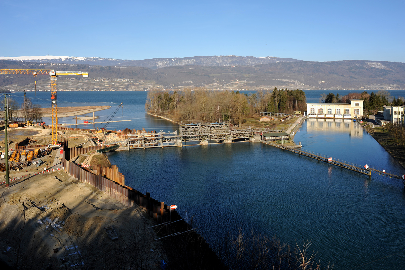 Hagneck canal of the Aar with the old dam and the hydroelectric powerstation; Berne, Switzerland. Left below the dam, the dam be poured for the construction of the temporary pedestrian bridge. In the background Lake Biel left Ligerz and the Chasseral.